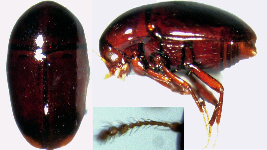 adult Baeocera tenuis. Near Hamilton, Pmbtn1, F:B1; P:A (2.41ha) #W718-071 (37°50′S 175°34′E / 37.83°S 175.56°E), 33 cm diam litter: 72hr Berlese, Edge dist 56.8m (6.4m offset). Waikato Region, New Zealand, 07-Dec-07 RK Didham.